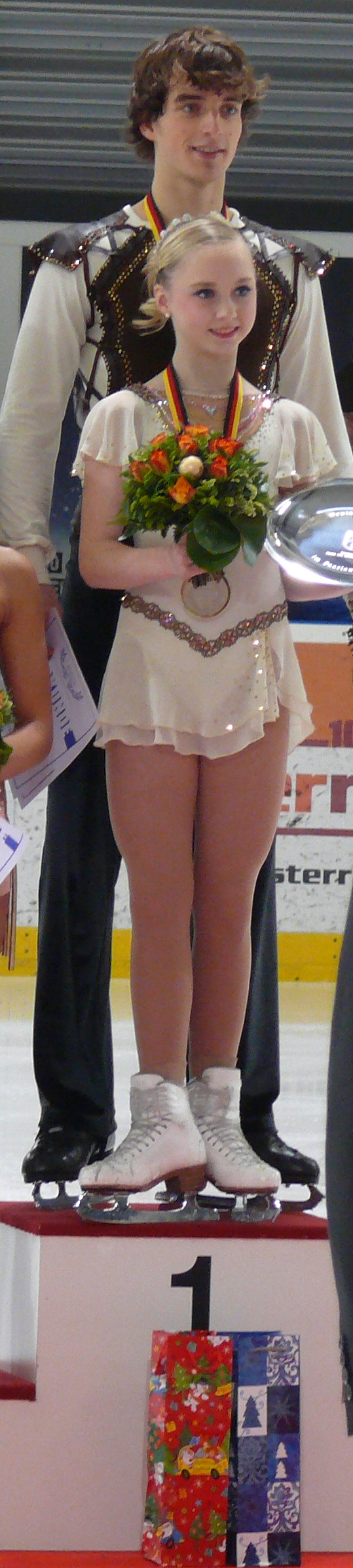 Annabelle Prölß and Ruben Blommaert at the German Championships in figure skating 2013 - victory ceremony pairs